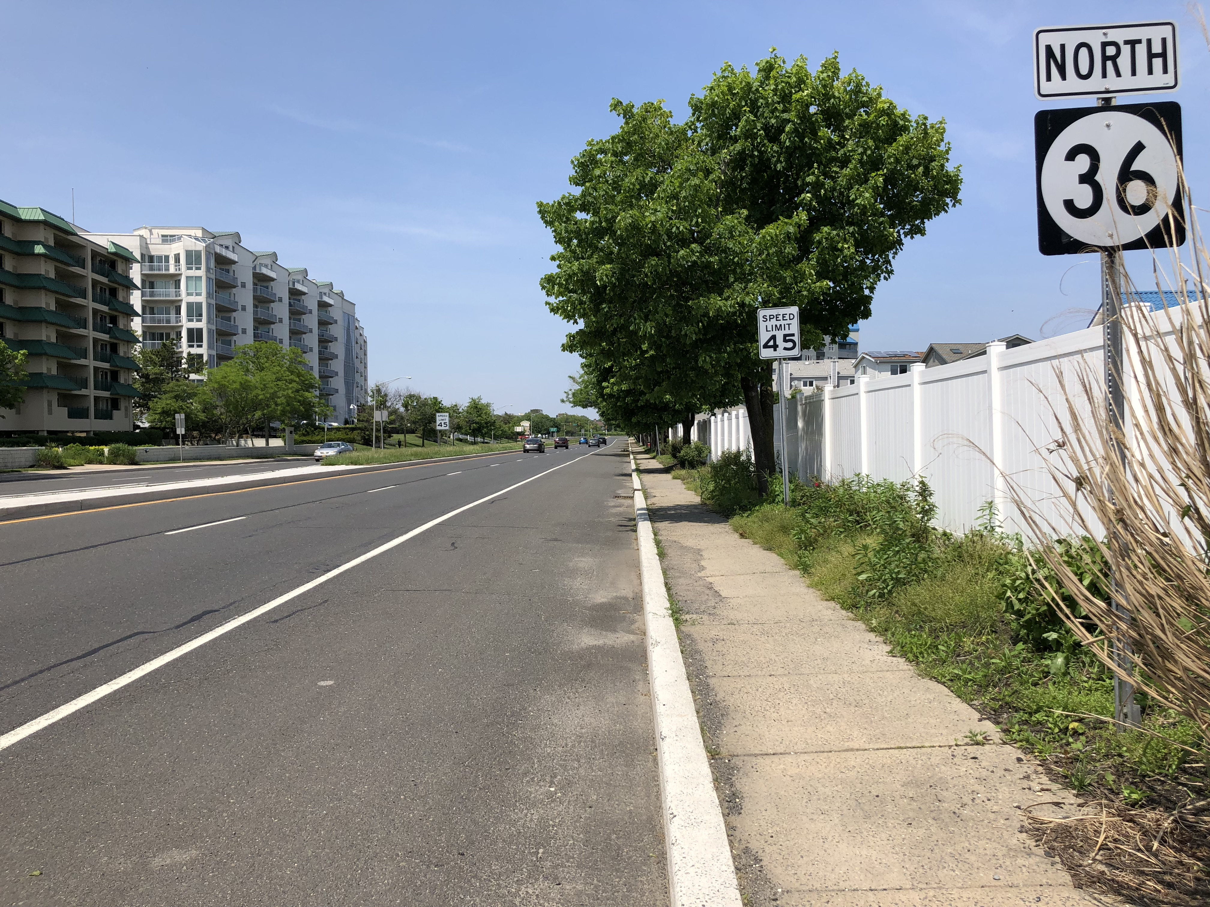 View north along New Jersey State Route 36 (Ocean Boulevard) at Joline Avenue in Long Branch, Monmouth County, New Jersey